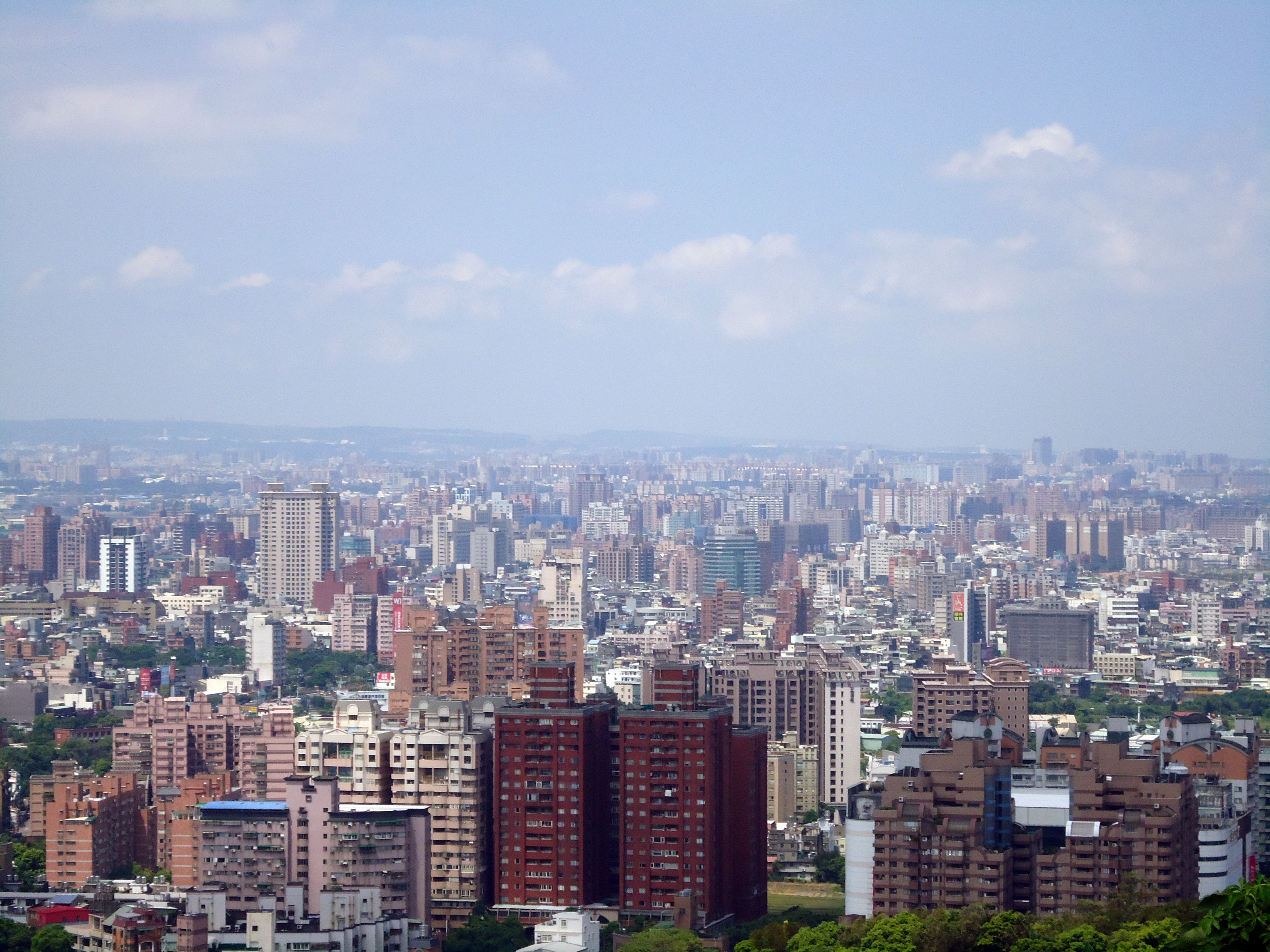 虎頭山環保公園 桃園市景 Taoyuan City from Hutoushan Green Park